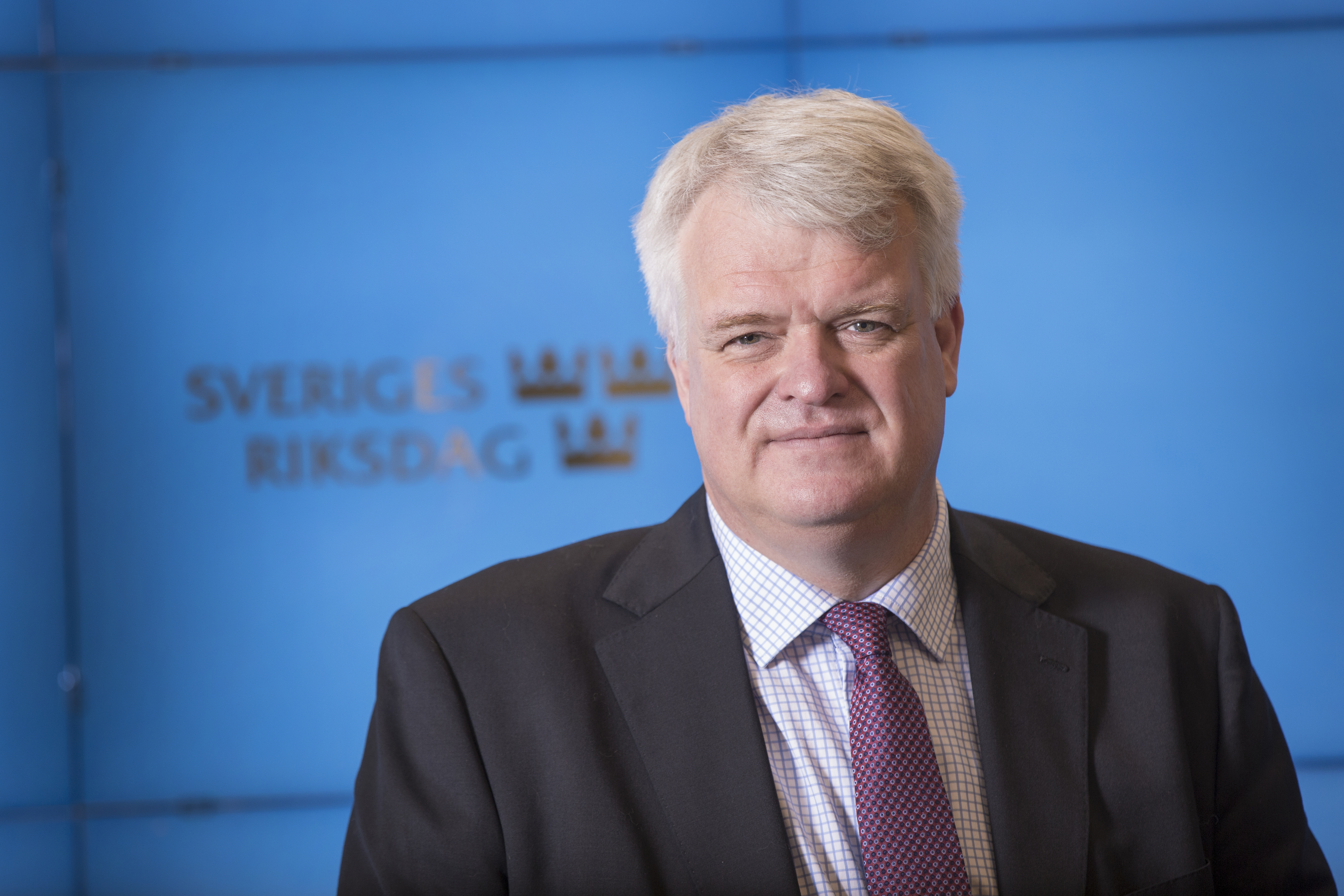 foto Johan Jeppsson